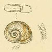 Planorbis albus Müller, accepted as Gyraulus albus[1]. From Illustrated Index of British Shells, Plate XXI., Fig. 19.